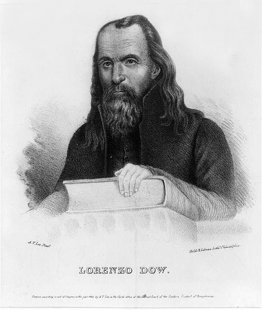 American theologian Lorenzo Dow (1777-1834)